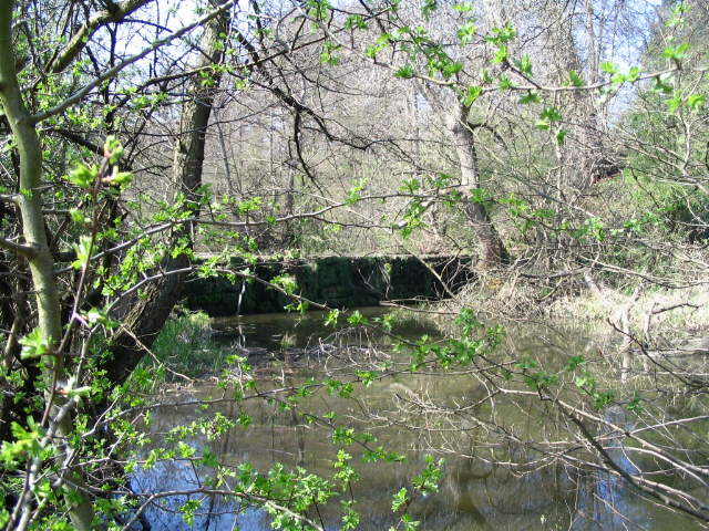 Weir on pond, Calke Park The weir on a series of four recreational ponds, linked by a weir and culverts, built by the Harpur Crewe family in the 18th century. The ponds provide a suitable habitat for creatures such as white-clawed crayfish, frogs, toads, damselflies and dragonflies.